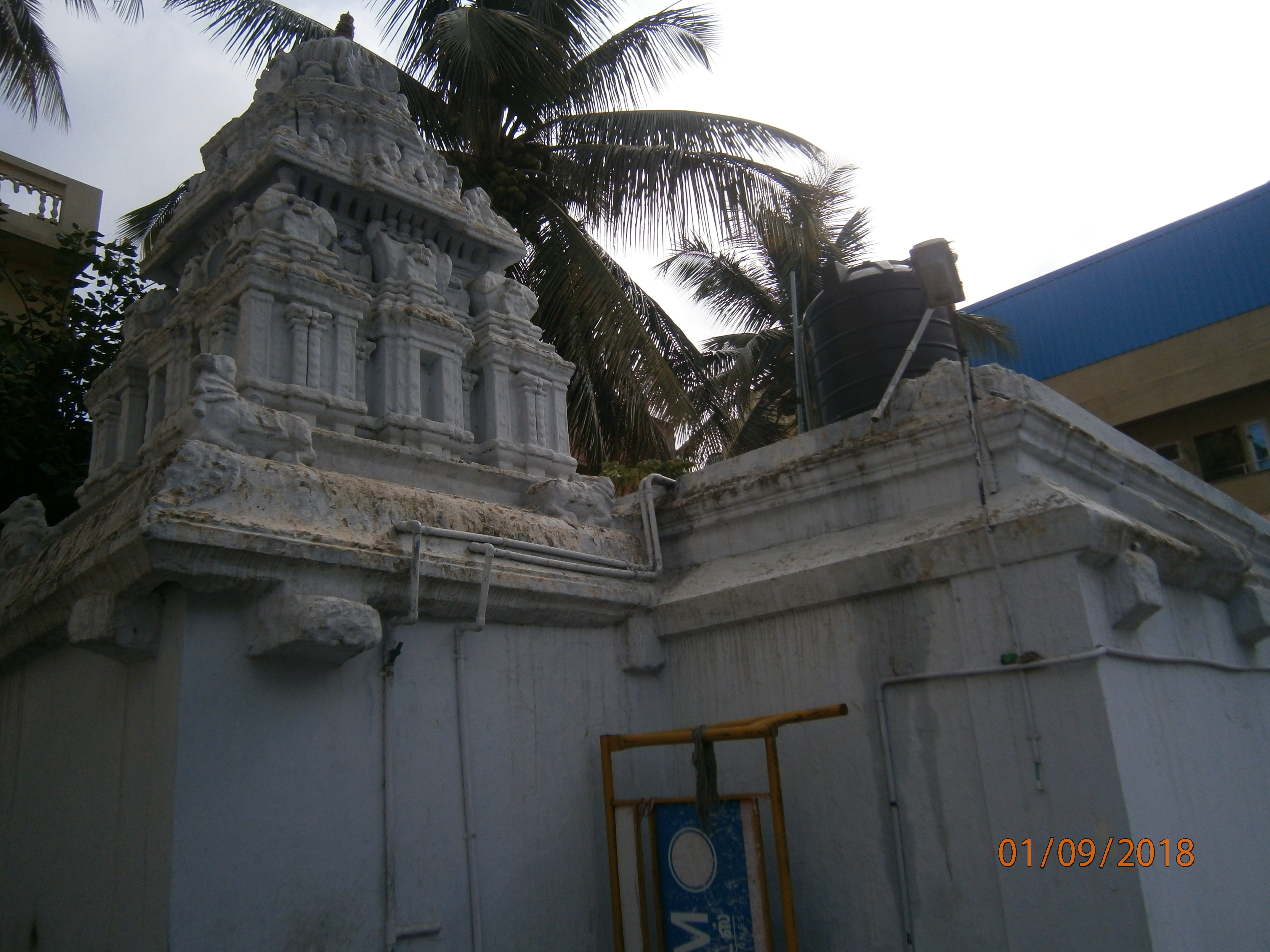 ஒசூர் நஞ்சுண்டேசுவரர் கோயில், விமானம்